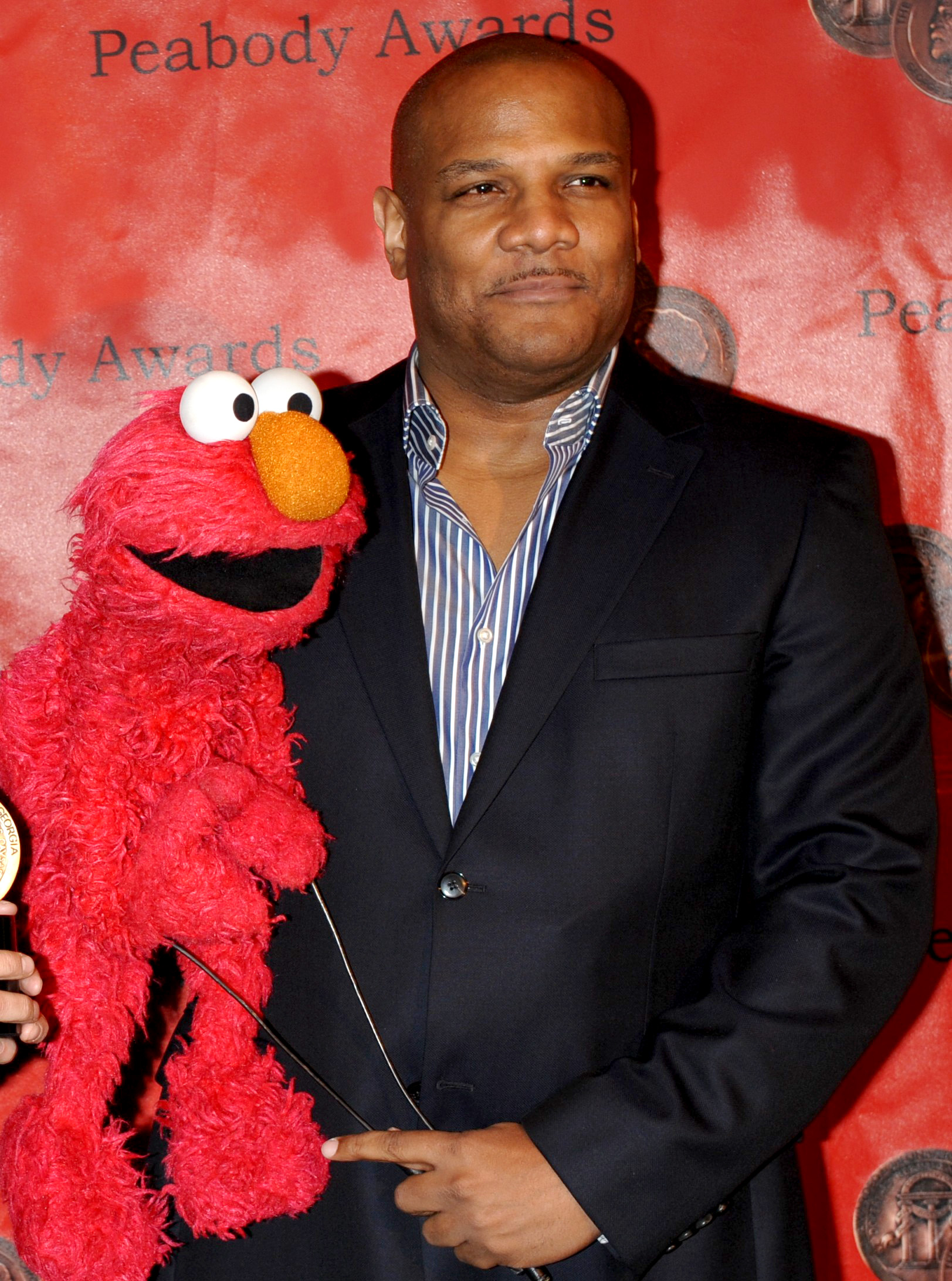 69th Annual Peabody Awards Luncheon Waldorf=Astoria Hotel New York, NY USA May 17, 2010